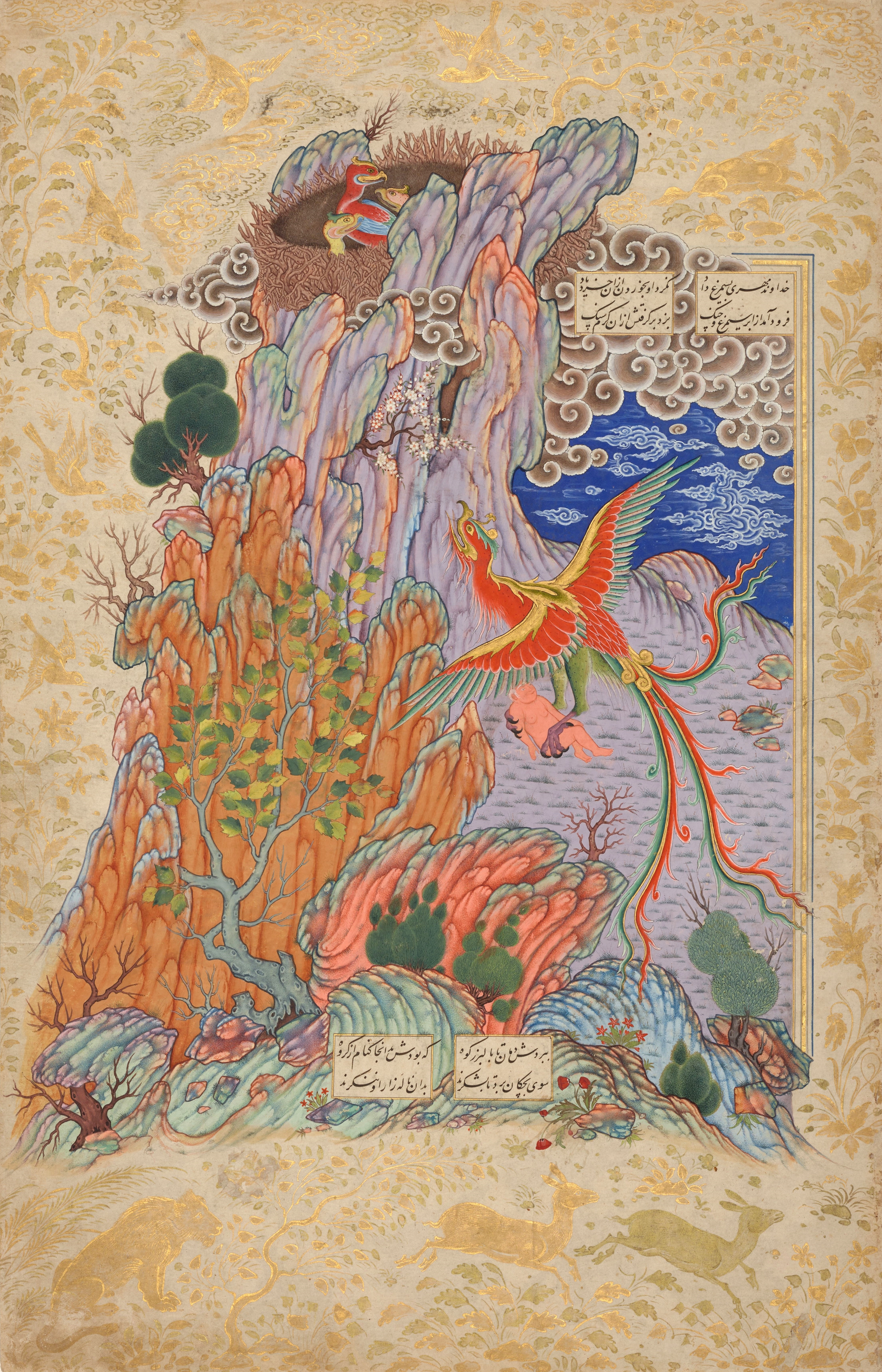 illumination from a Shahname manuscript, from it this image is Folio 12, recto, inv. no. Per 277.12a [1]